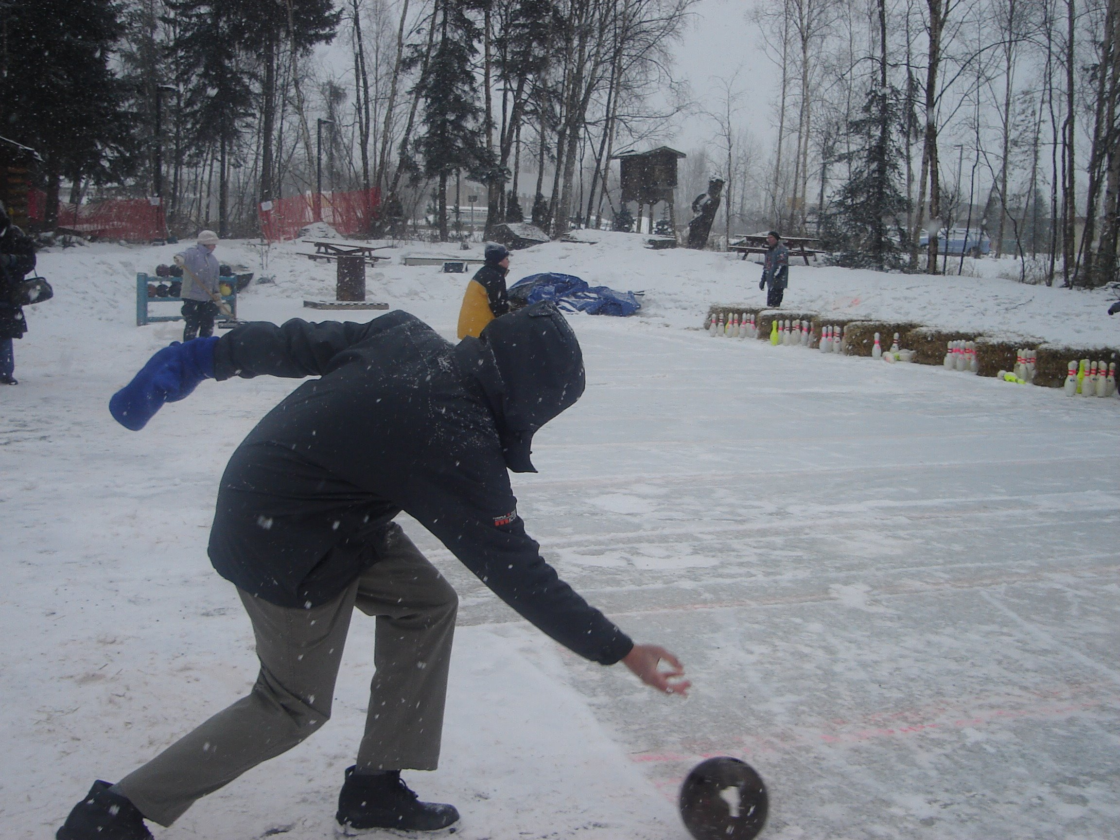 Scene from the Alaskan Fur Rondy ice bowling competition at the Peanut Farm in Anchorage, Alaska.